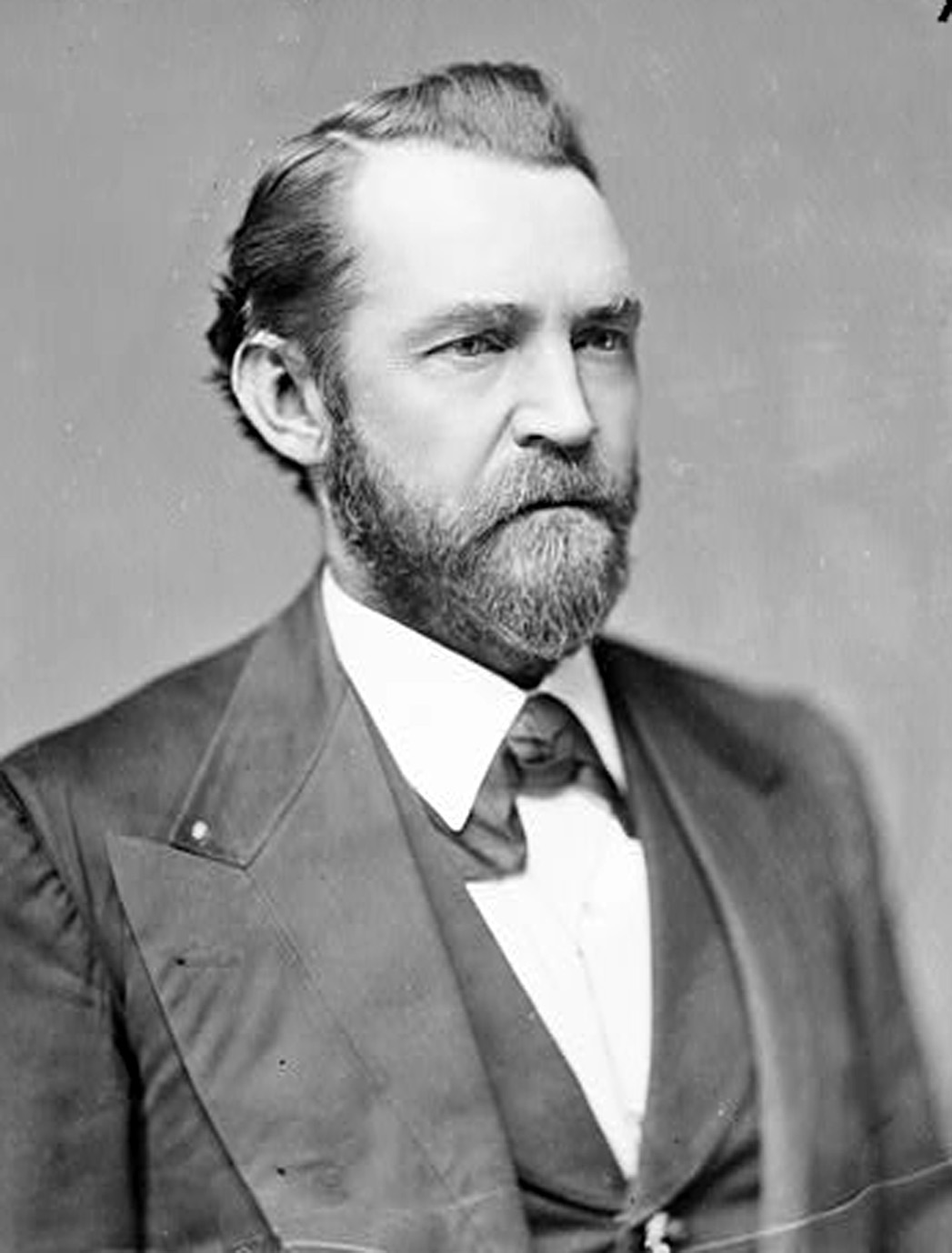 William Wallace Wilshire, US Representative from Arkansas